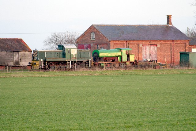 The old railway station and encumbents, Rippingale. Some locos to be preserved in the Lincolnshire countryside